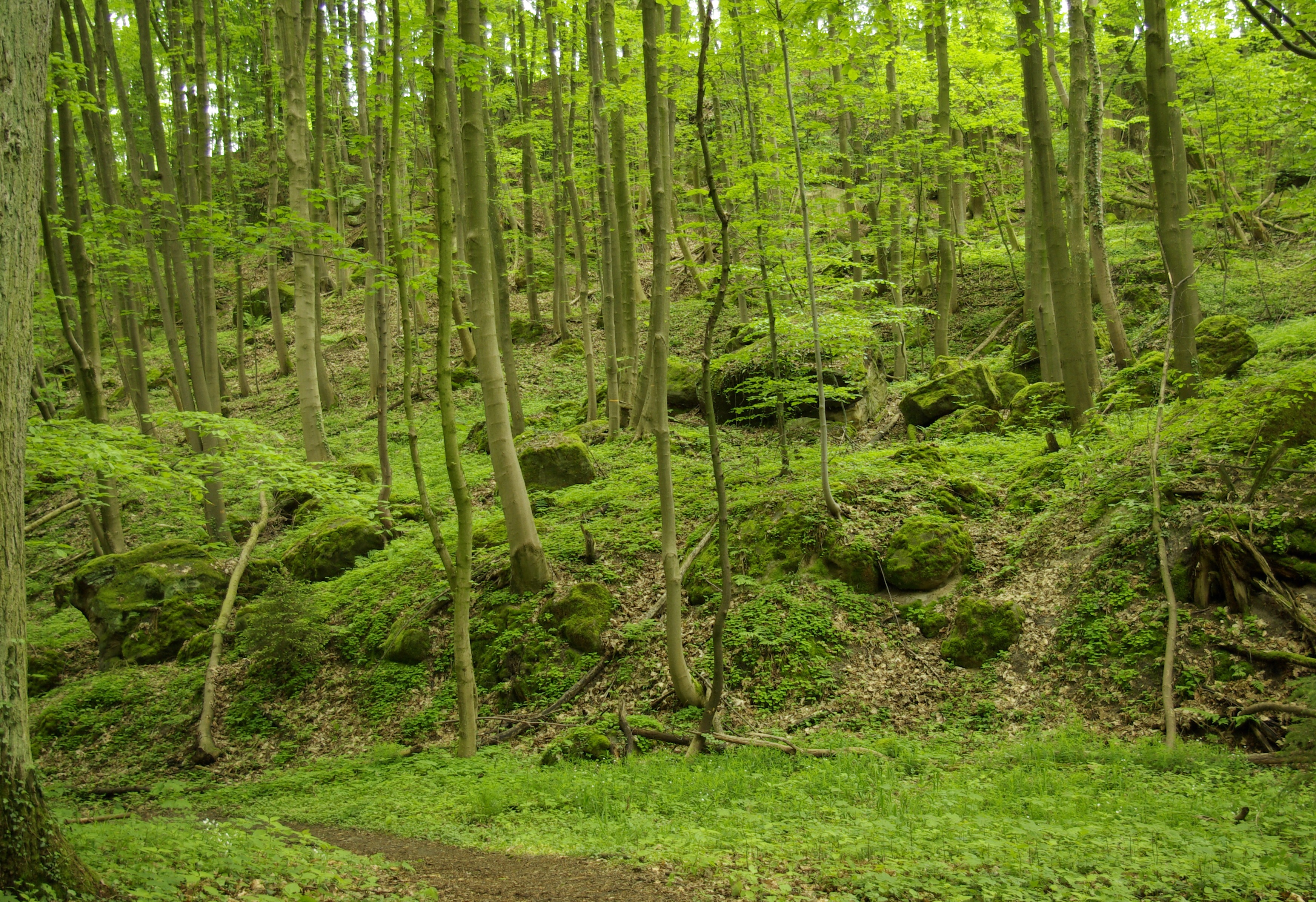 Nature reserve Wildnis am Rathsberg